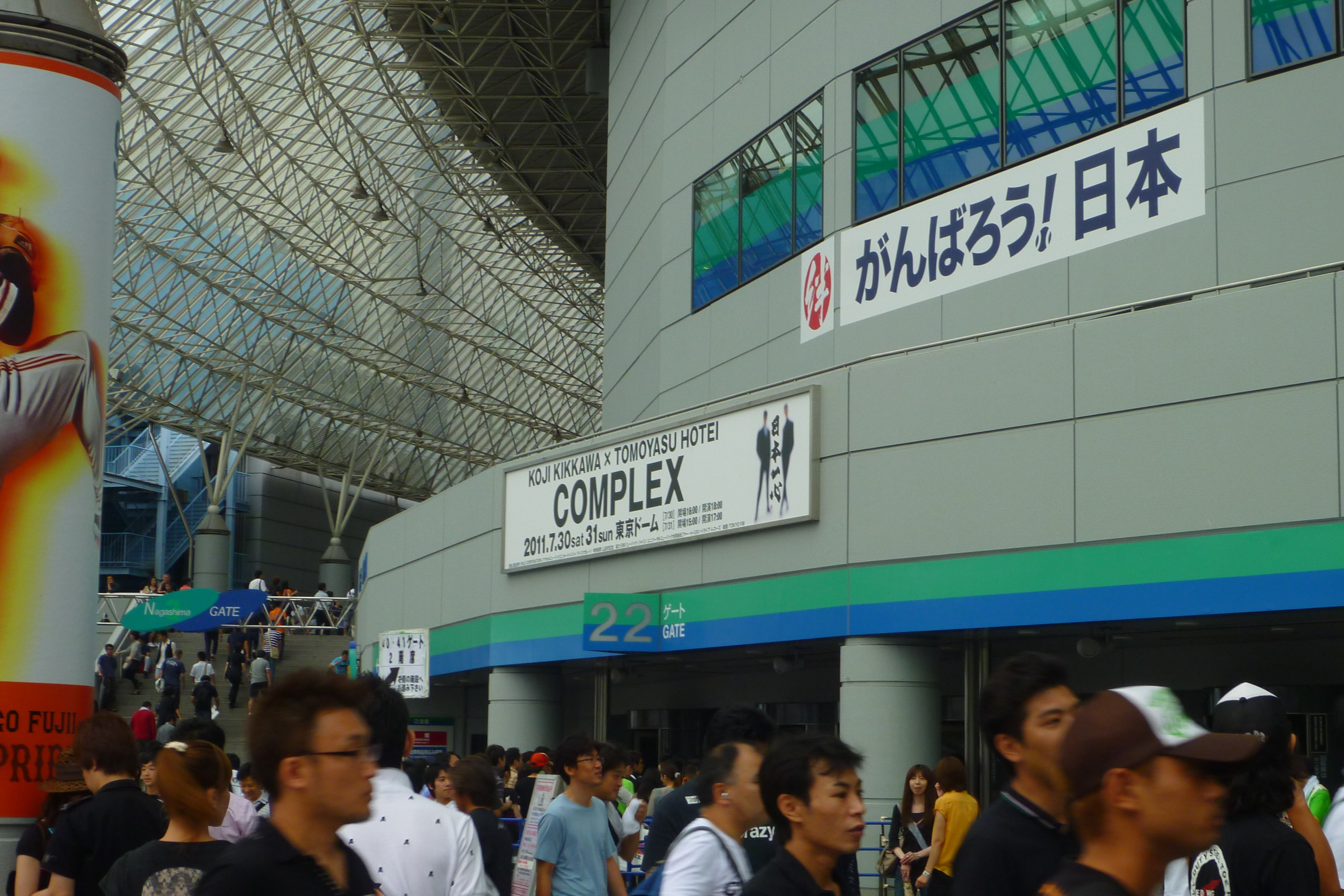 Complex was a Japanese rock band composed of guitarist Tomoyasu Hotei and singer Koji Kikkawa. They reunited after 21 years for a Complex show on July 30 and 31st [2011] at the Tokyo Dome. All proceeds were donated to aid the victims of the Tōhoku earthquake and tsunami. This is a photo from in front of the Tokyo Dome on the 31st. （コンプレックス）